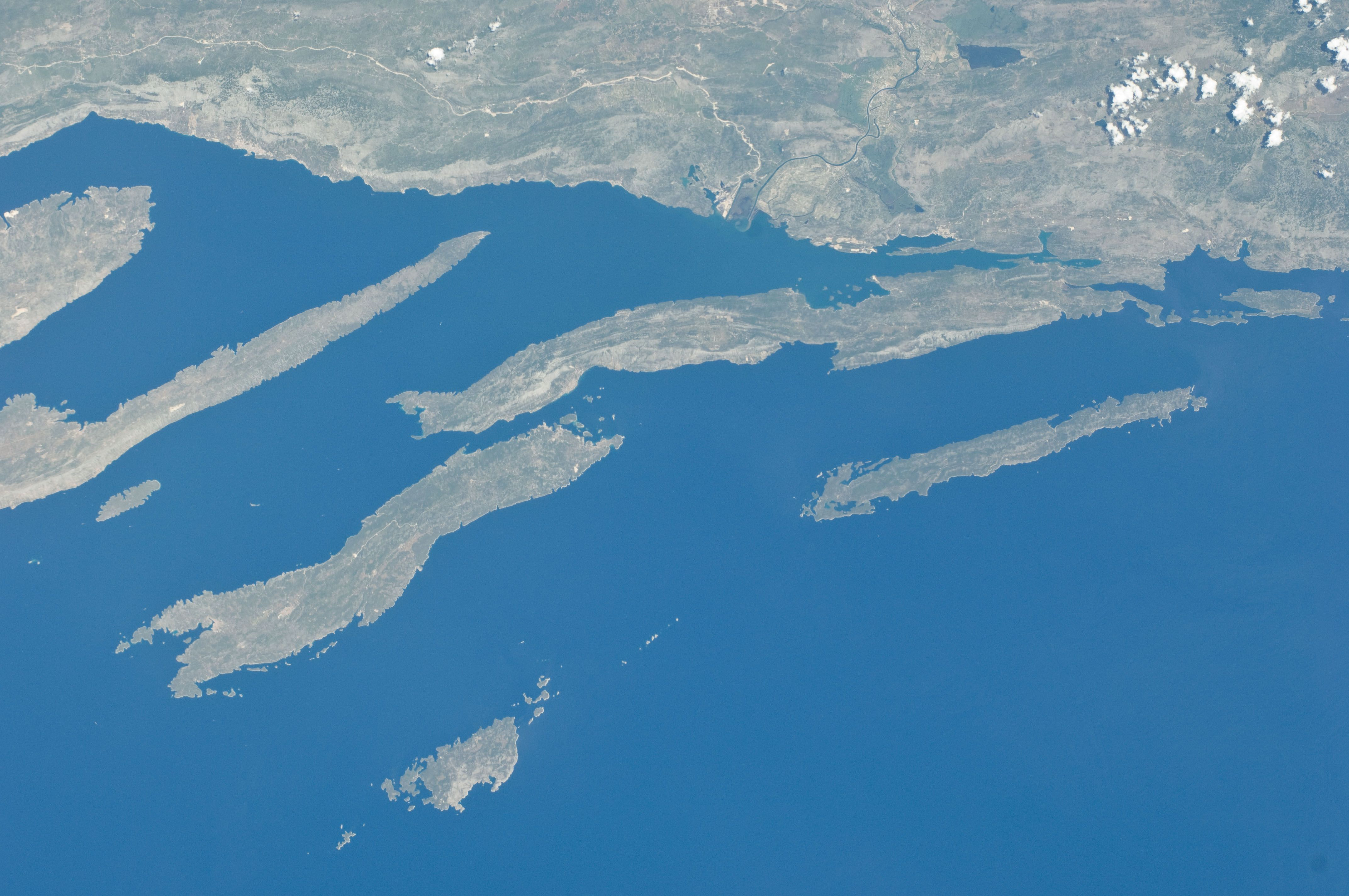 Aerial photographs of Pelješac and surrounding islands